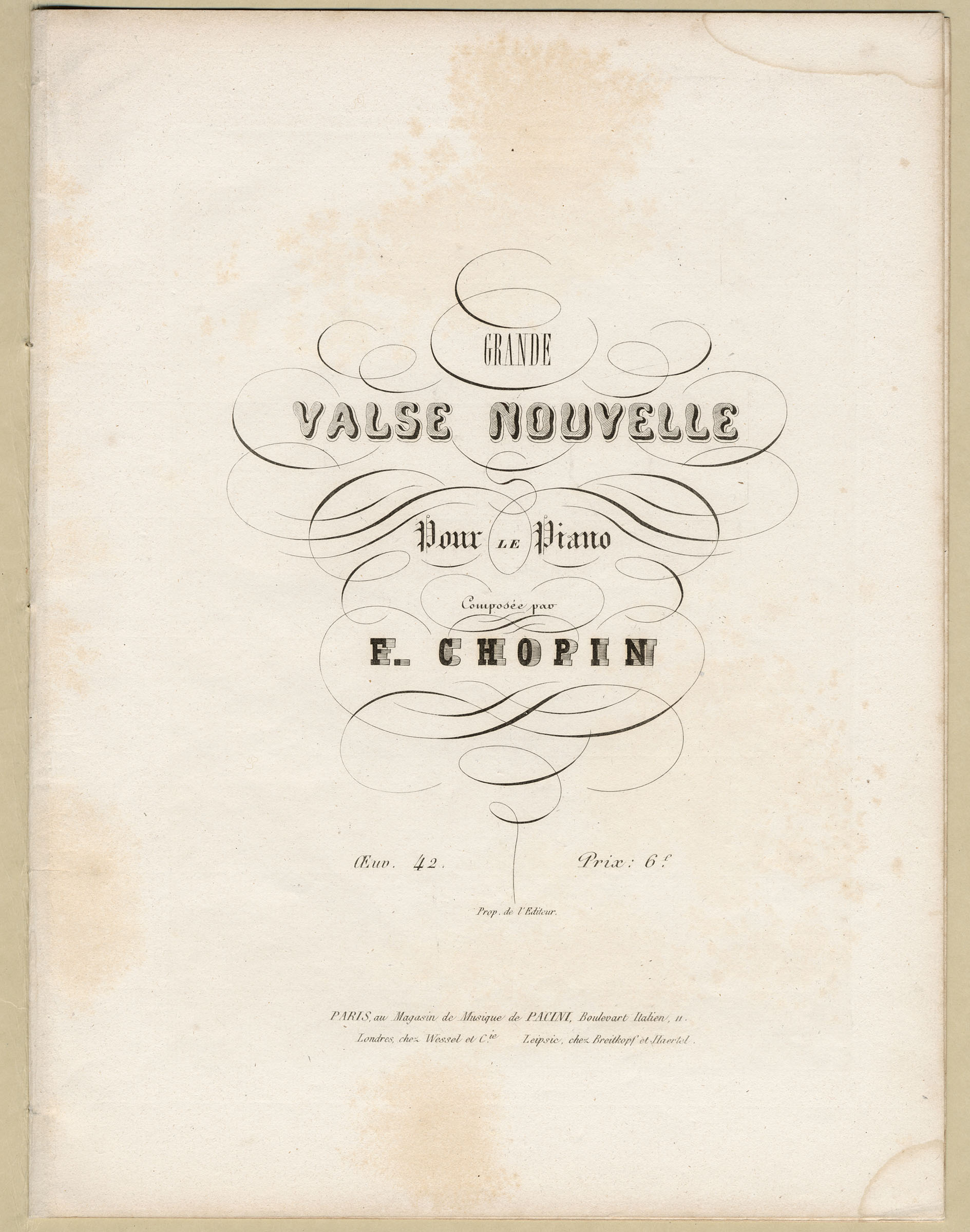 Cover page of Chopin's Valse in A flat major, Op. 32, published by Pacini in 1840.